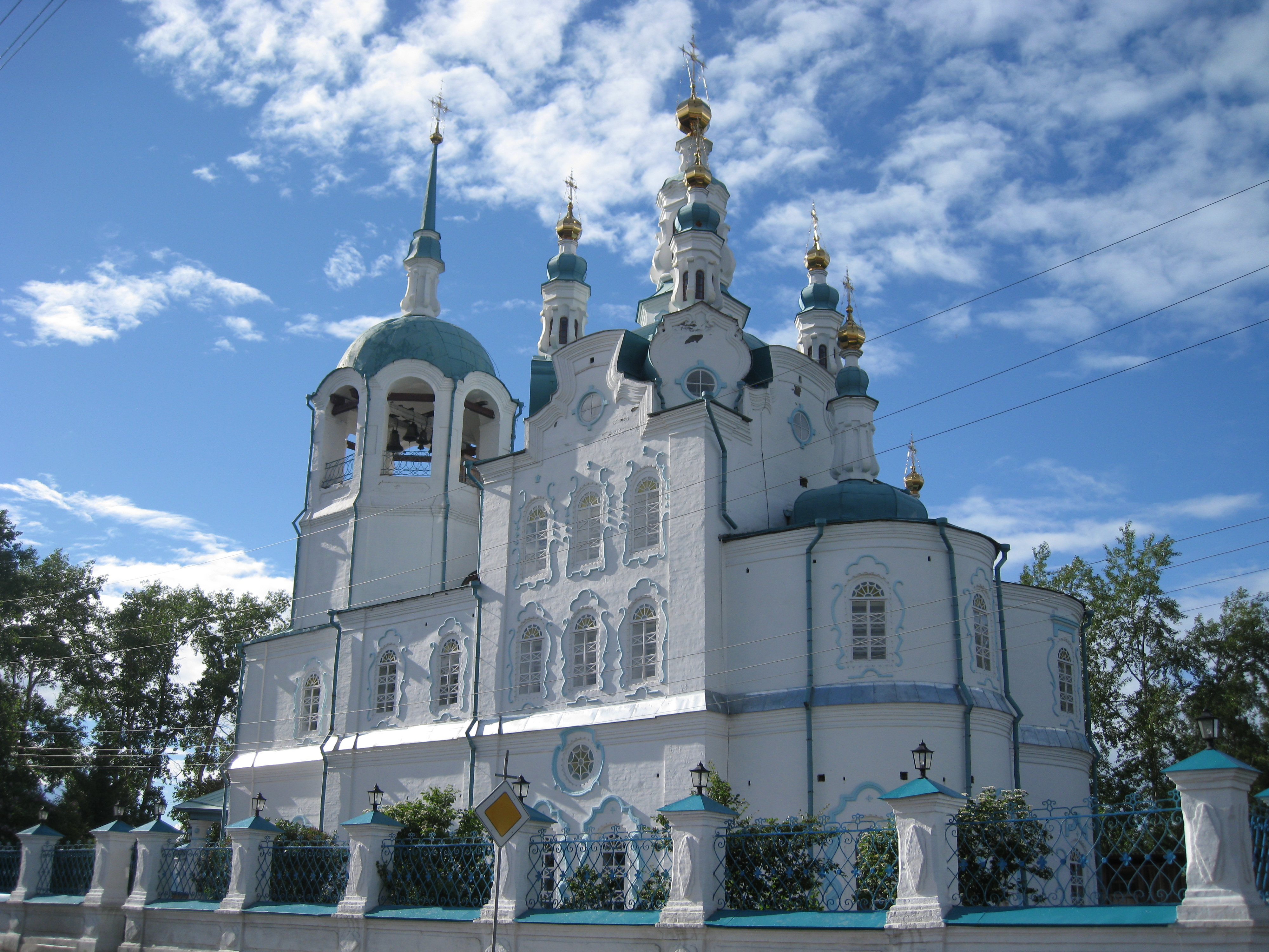 Dormition of the Theotokos Cathedral in Yeniseisk